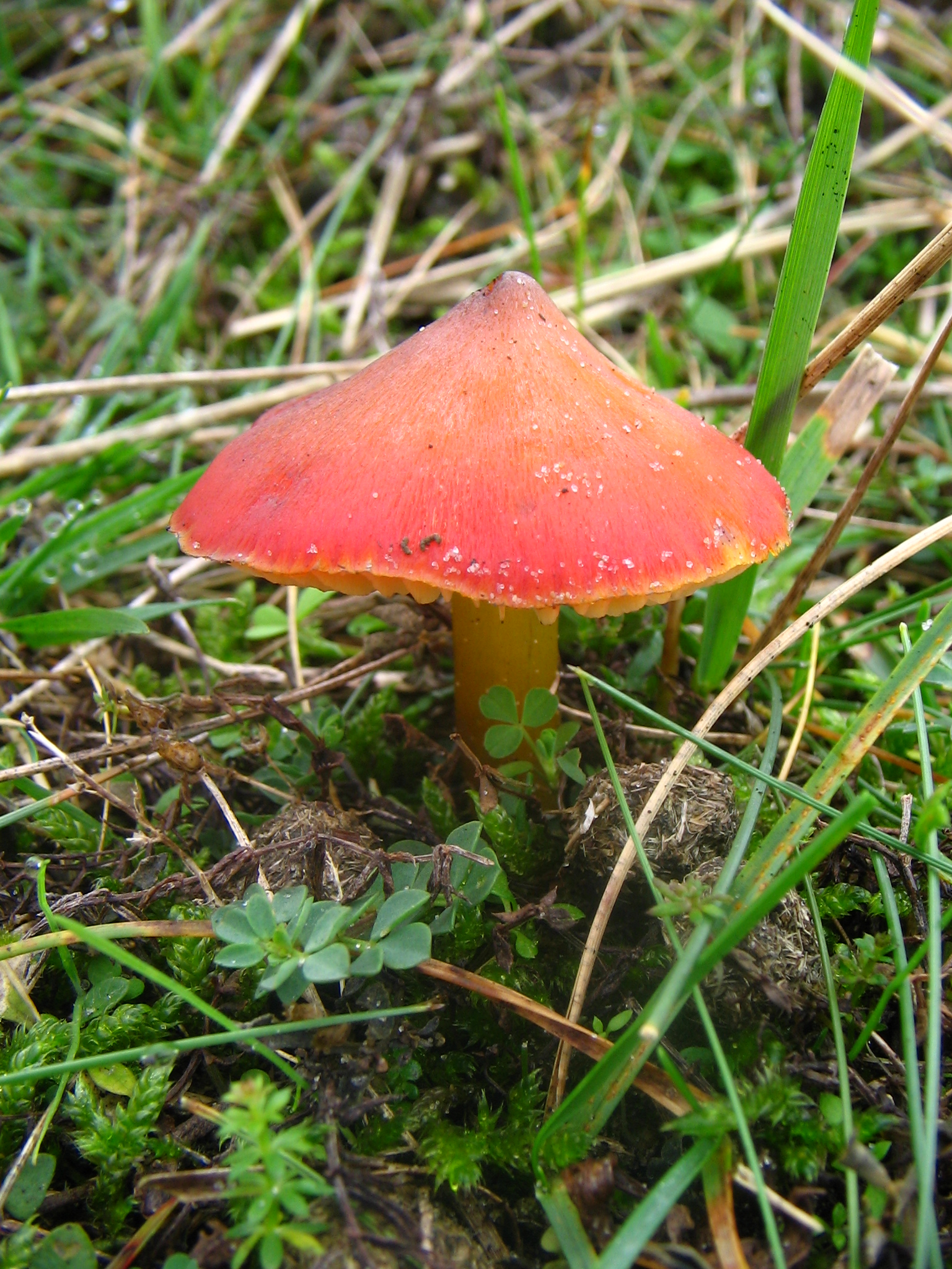 Hygrocybe conica Terschelling, Netherlands, November 2005